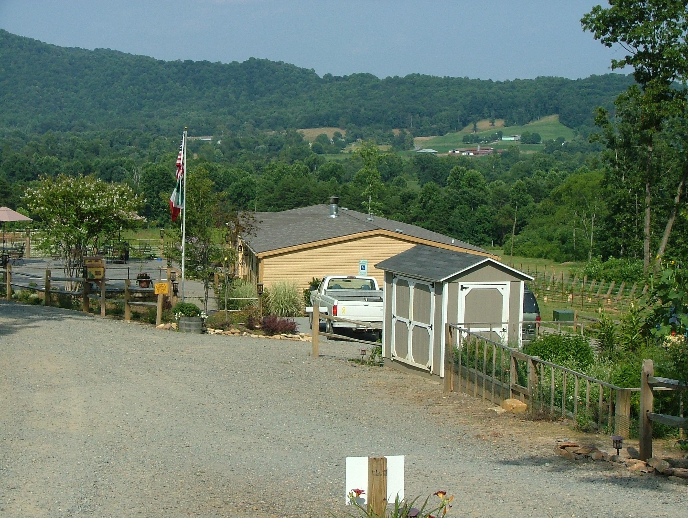 Raffaldini Winery in the in 2008 recognized "Swan Creek" AVA, North Carolina. Pic taken in 2004.